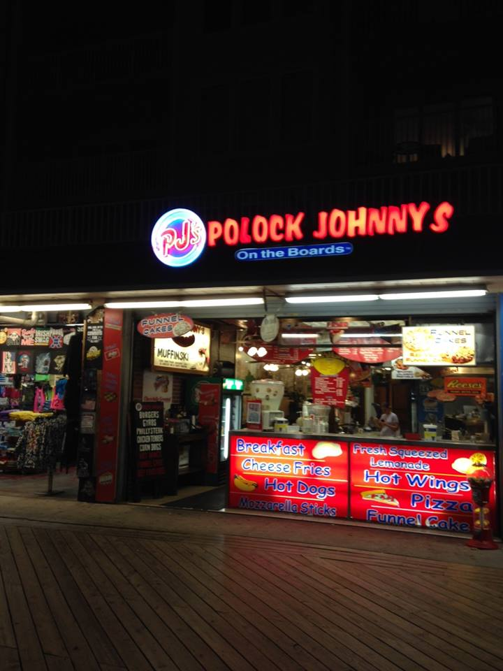 A Polock Johnny franchise at one of its locations on the Boardwalk, Ocean City, Maryland.